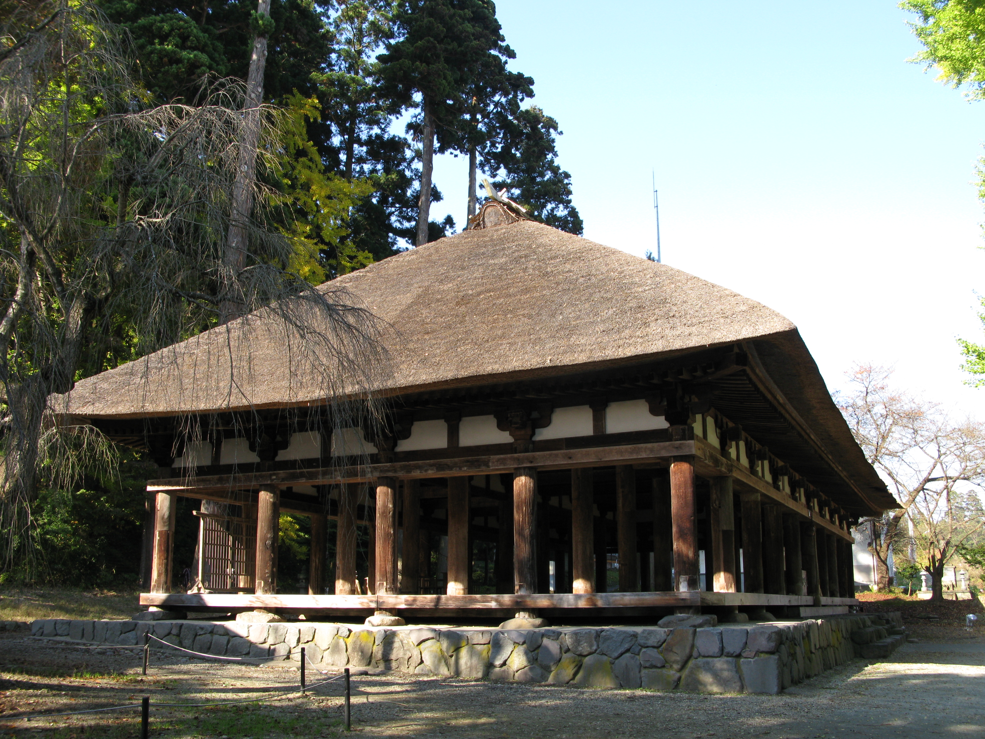 Shrine Shingu-Kumano-jinja, Nagatoko, Kitakata city, Fukushima pref., Japan